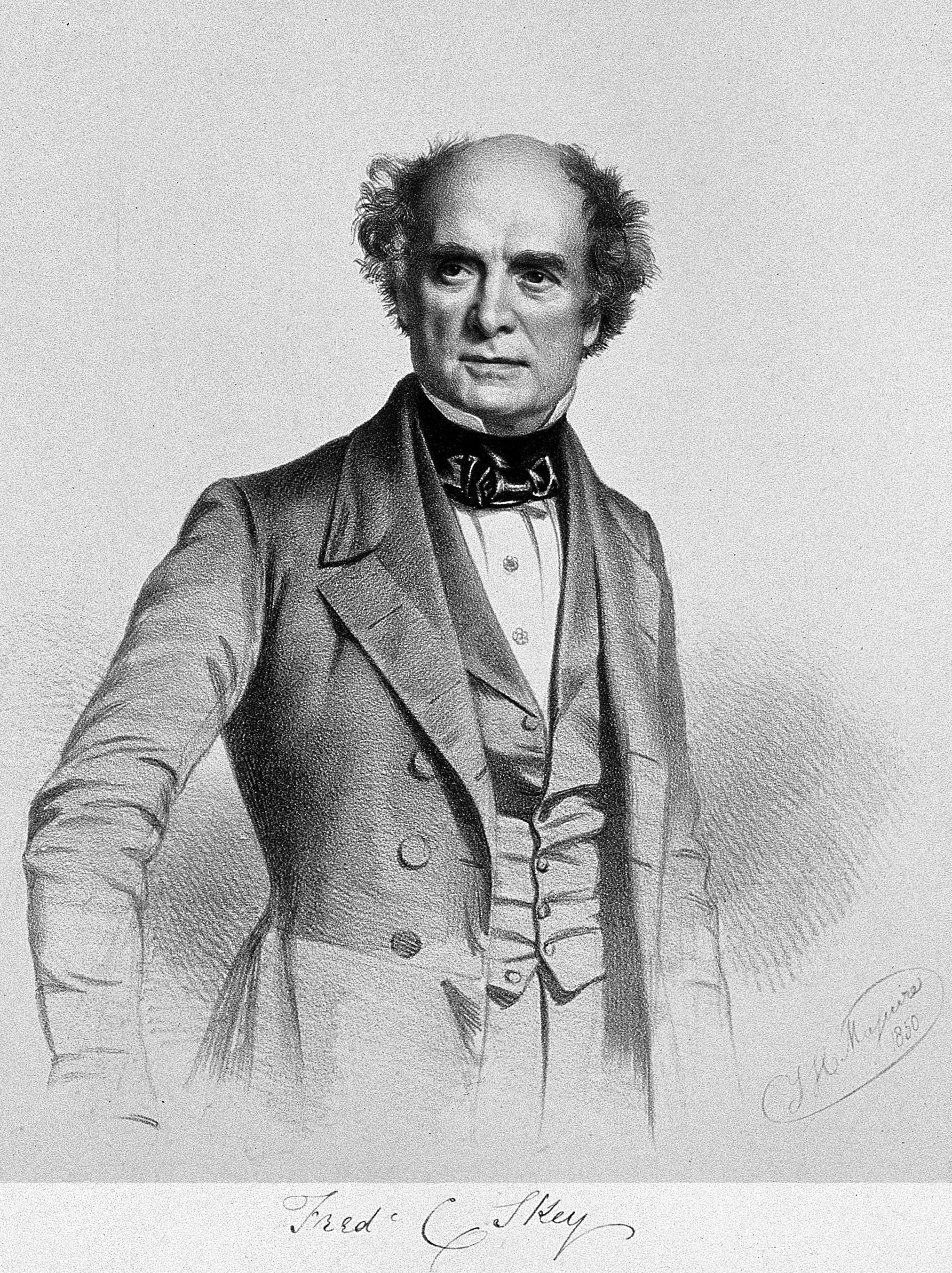 Portrait of Frederic Carpenter Skey (1798–1872), English surgeon.